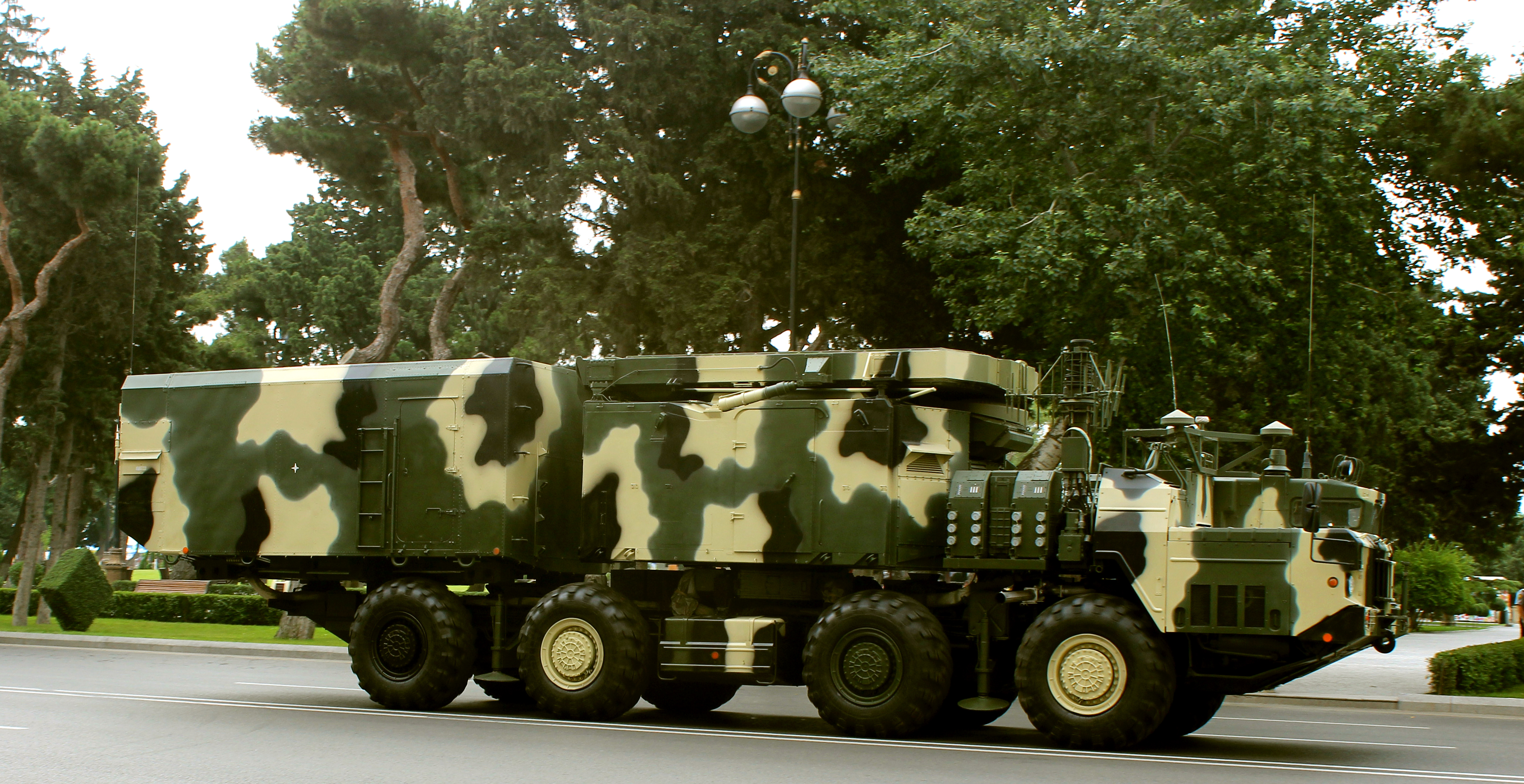 Military parade in Baku 2013